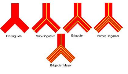 Military rank insignia of Venezuela